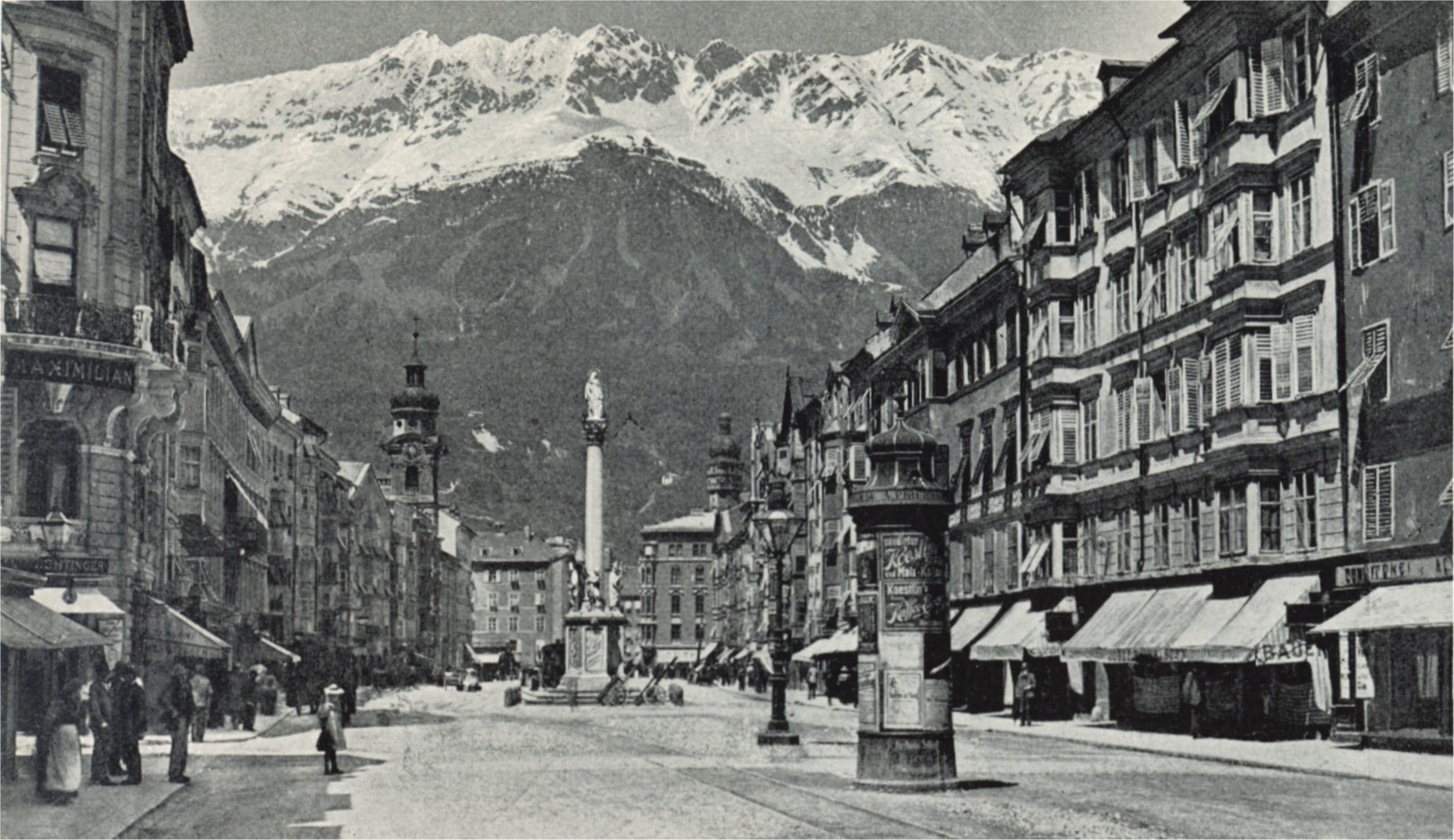 Maria-Theresien-Straße in Innsbruck around 1898